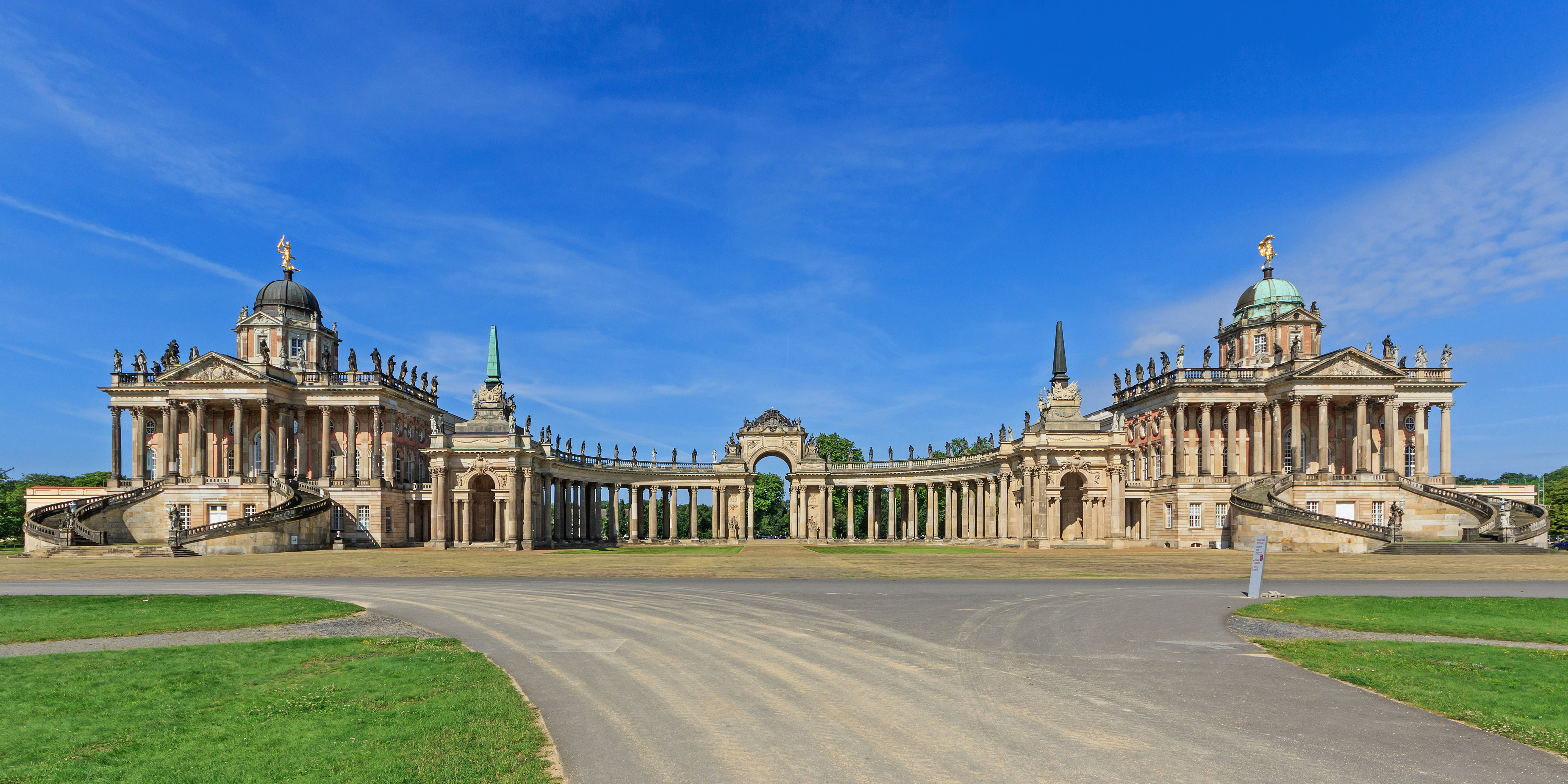 Ensemble of Sanssouci Neues Palais in Potsdam (Germany)